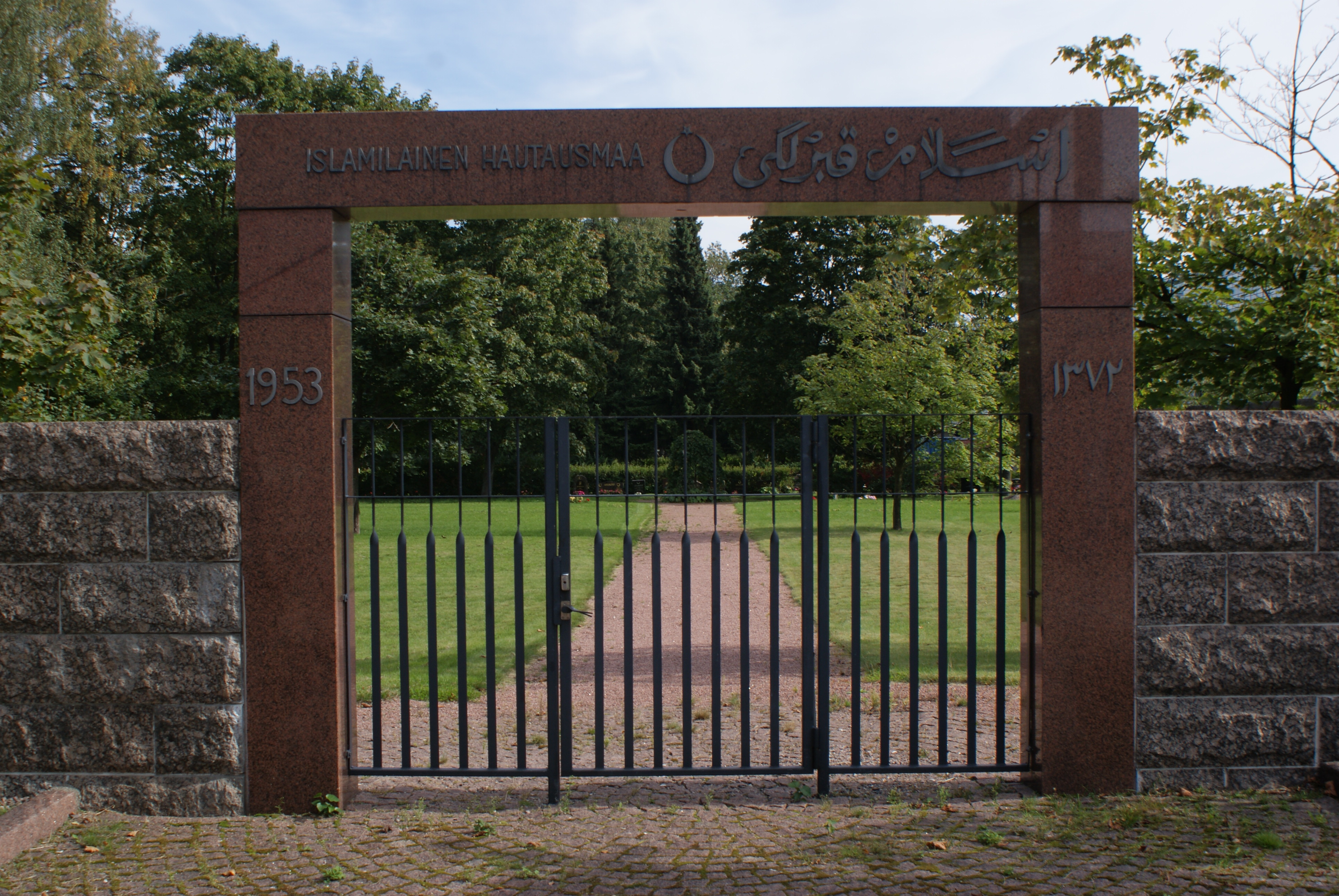 Gate of the islamic cemetery of Helsinki (section of the Hietaniemi cemetery)